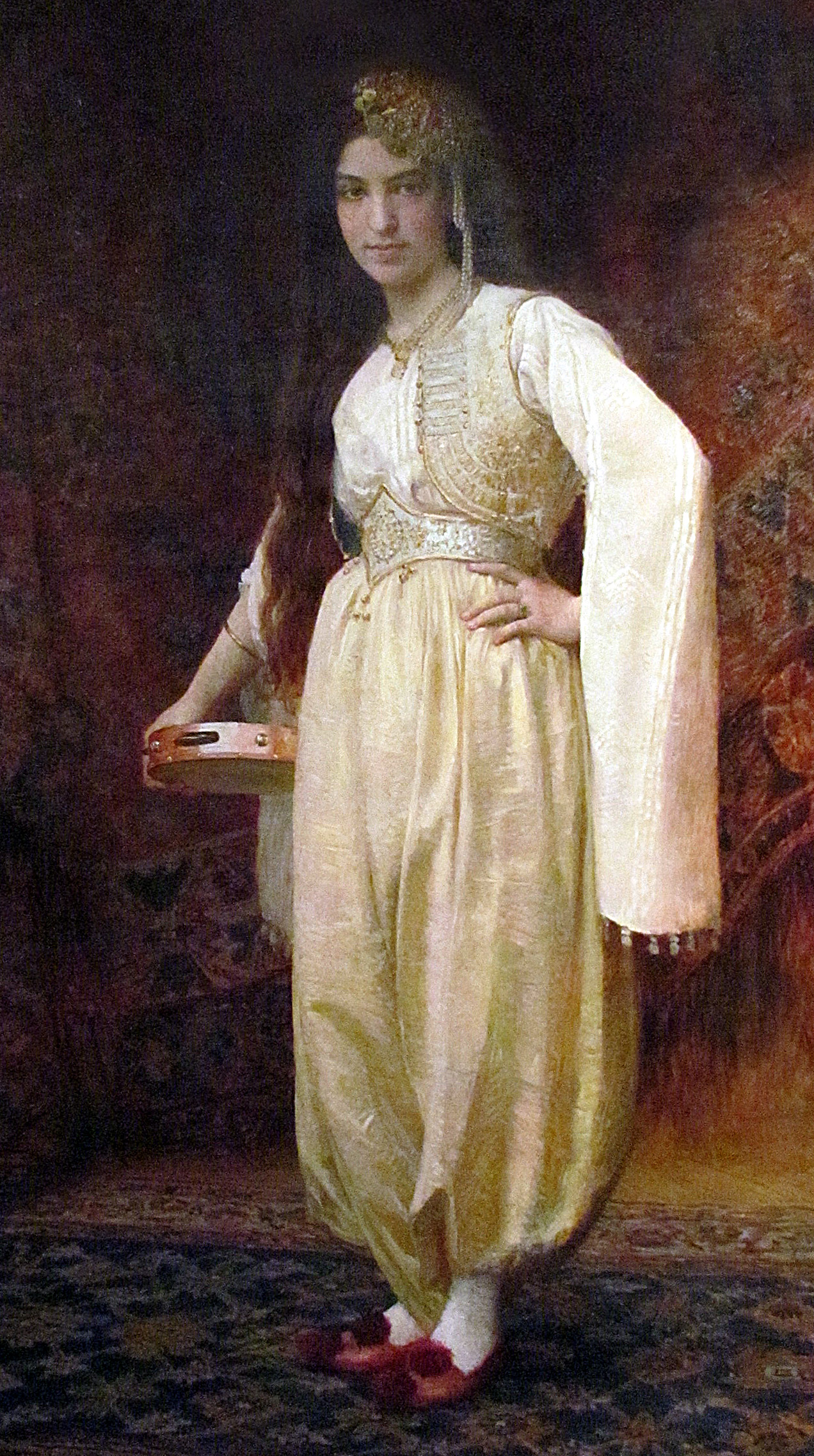 Vlaho Bukovac, Fanerli Hristić, Prizren, 1921